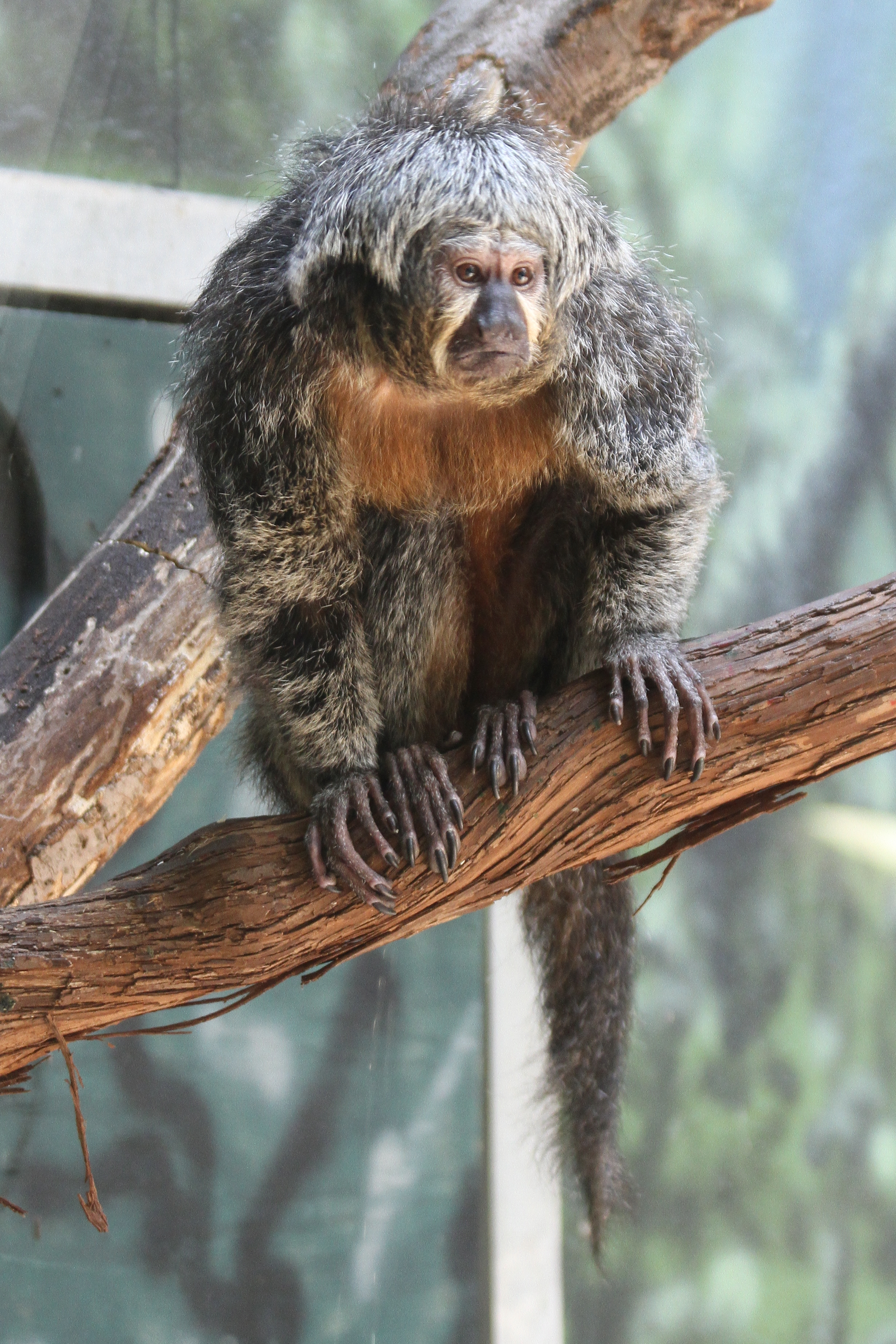 Female of white faced saki (Pithecia pithecia) in Philadelphia Zoo.